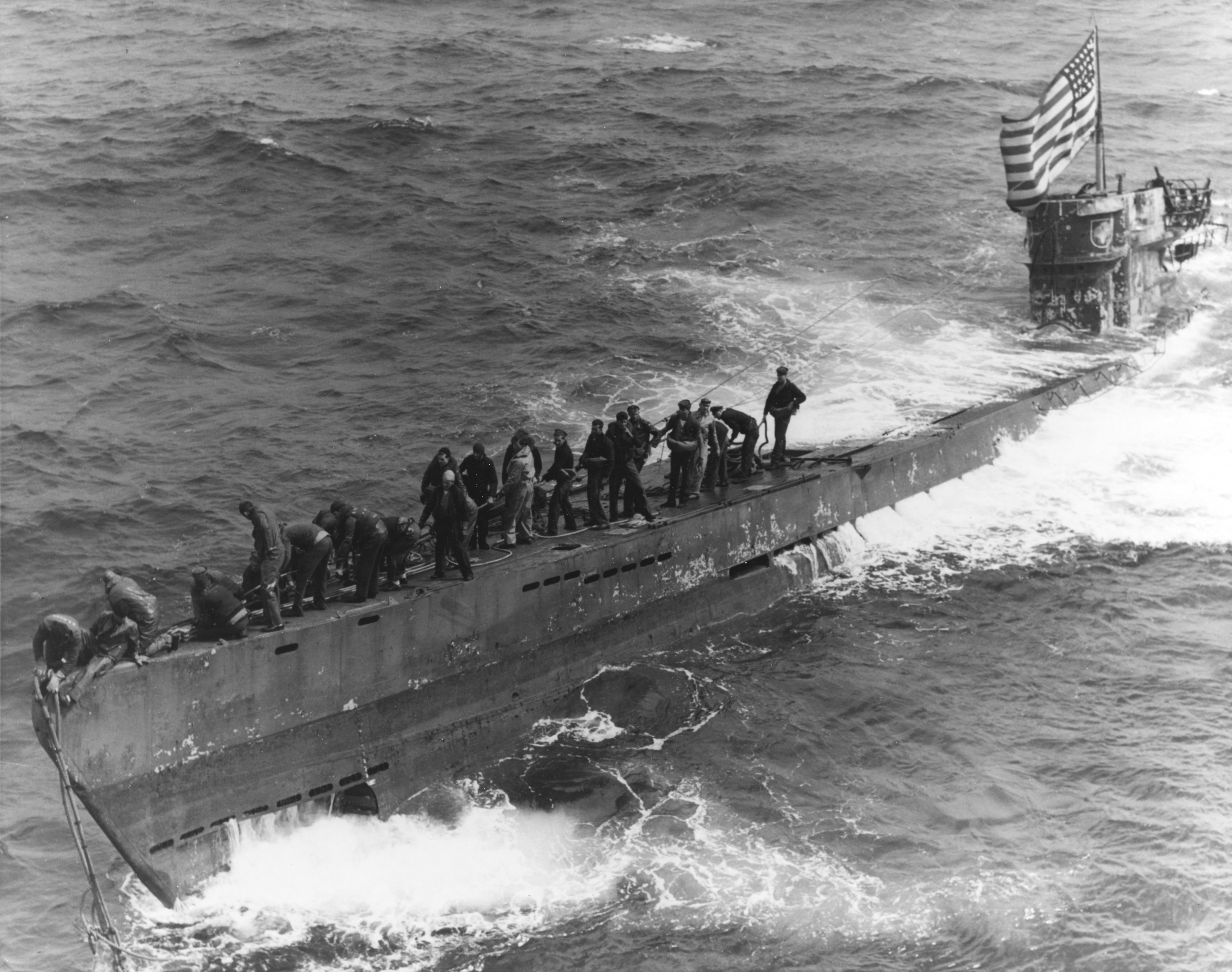 A boarding party from the U.S. Navy destroyer escort USS Pillsbury (DE-133) working to secure a tow line to the bow of the captured German submarine U-505, 4 June 1944. Note the large U.S. flag flying from the submarine's periscope.